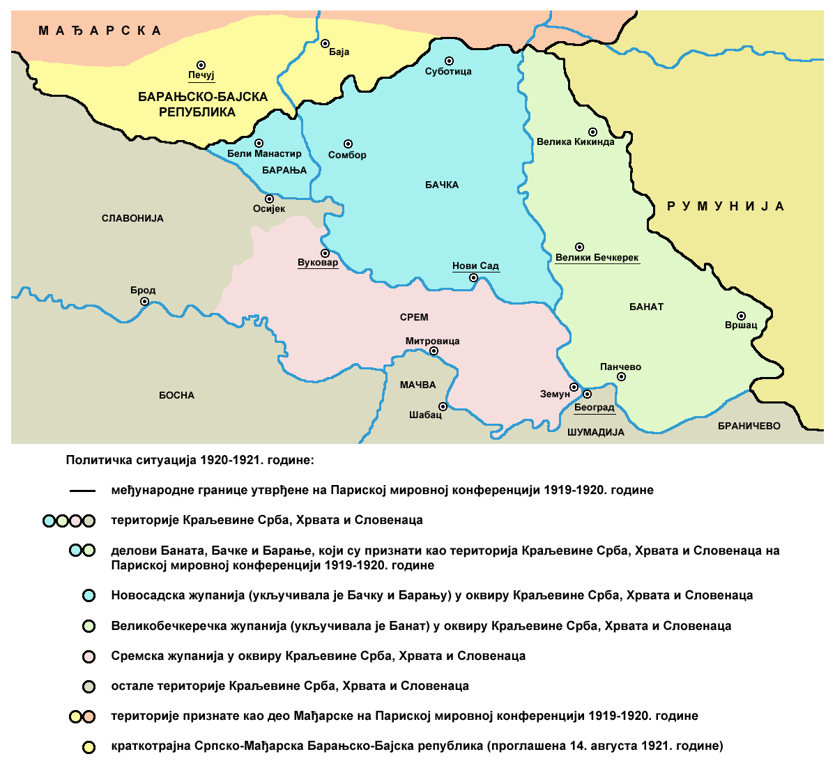 historical map of Banat, Bačka, Baranja and Syrmia within the Kingdom of Serbs, Croats and Slovenes in 1920-1921 and short-lived Baranya-Baja Republic in 1921 - Serbian language version.